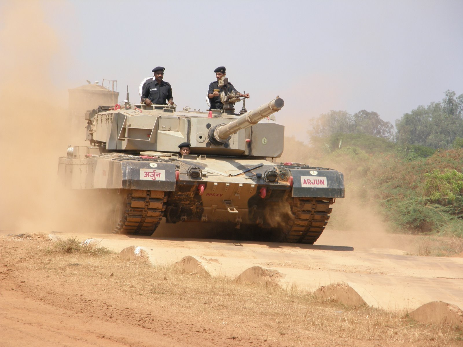 An Arjun MBT being test driven on the bump track at the Central Vehicles Research and Development Establishment (CVRDE), at Avadi, Chennai